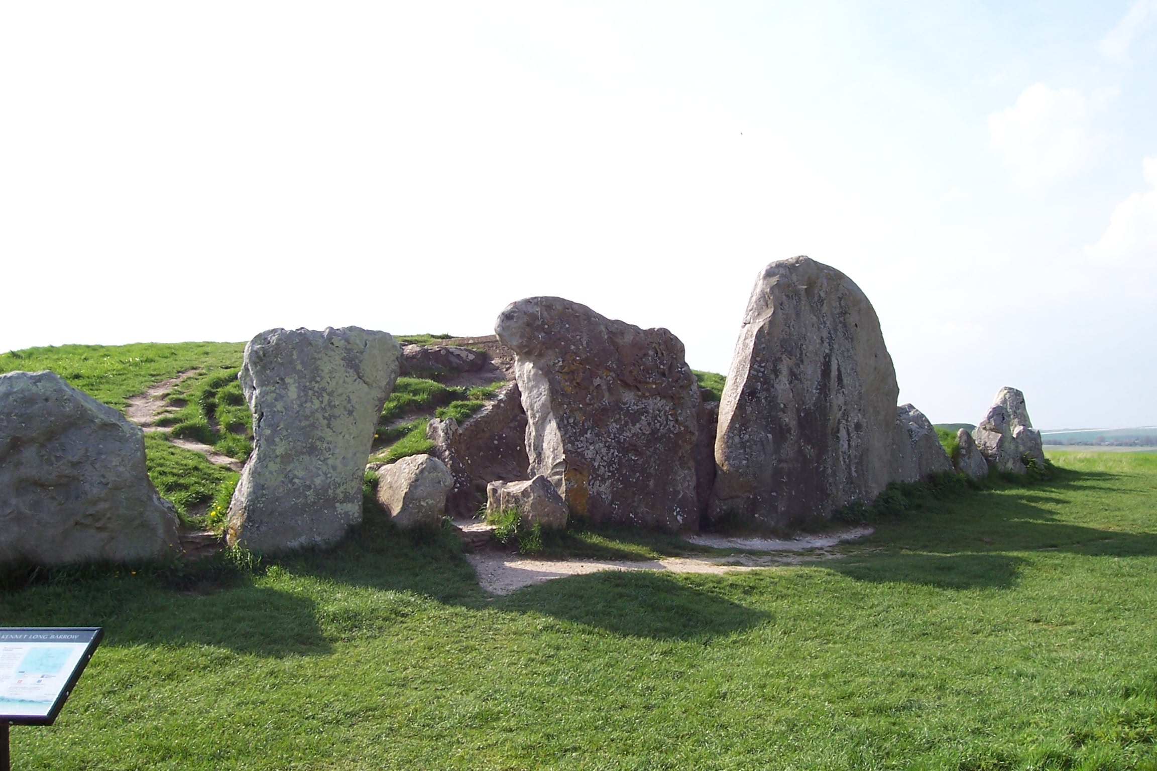 West Kennet Long Barrow, Hügelgrab, Avebury, Wiltshire, UK